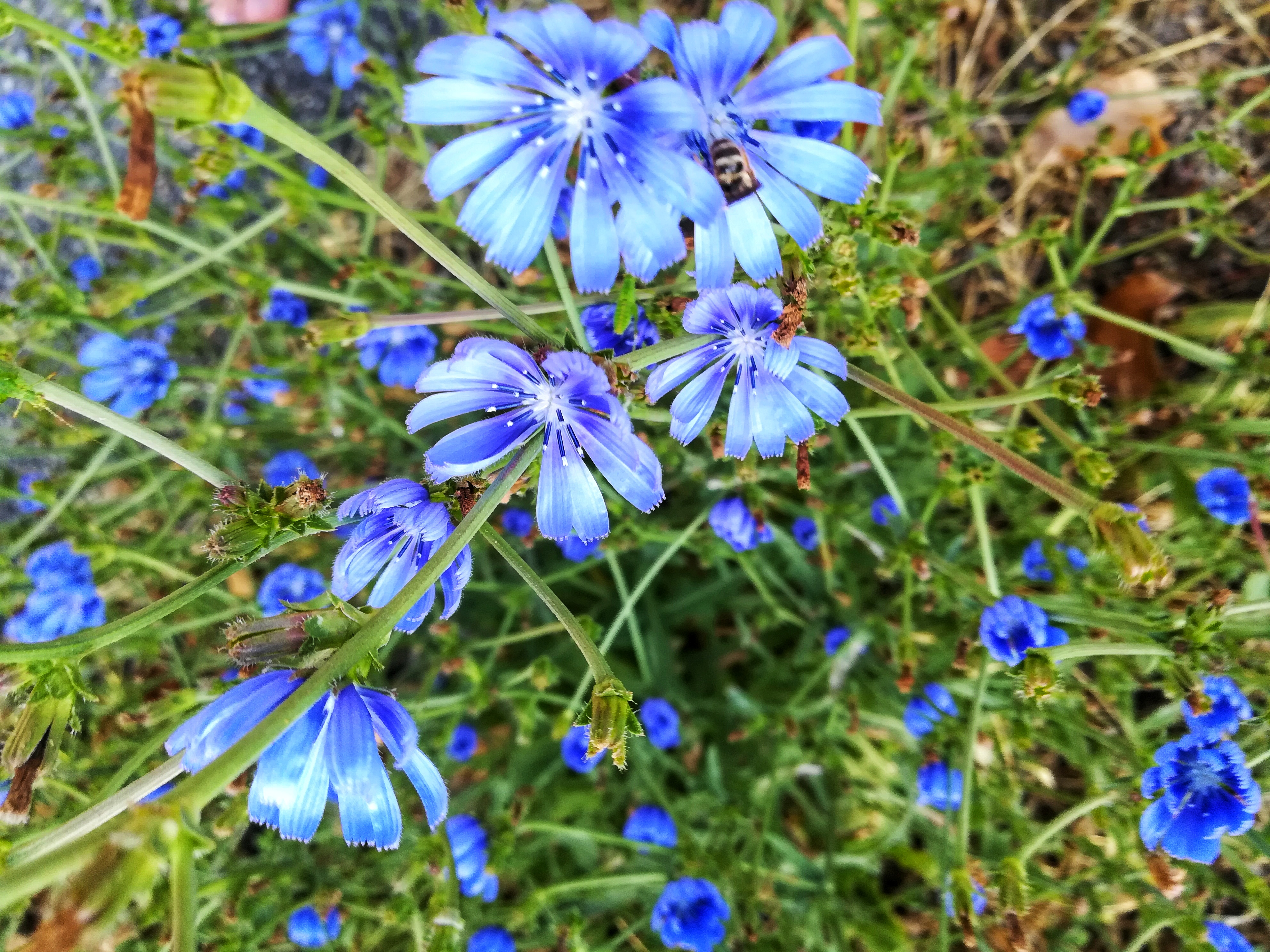 Wild cornflowers